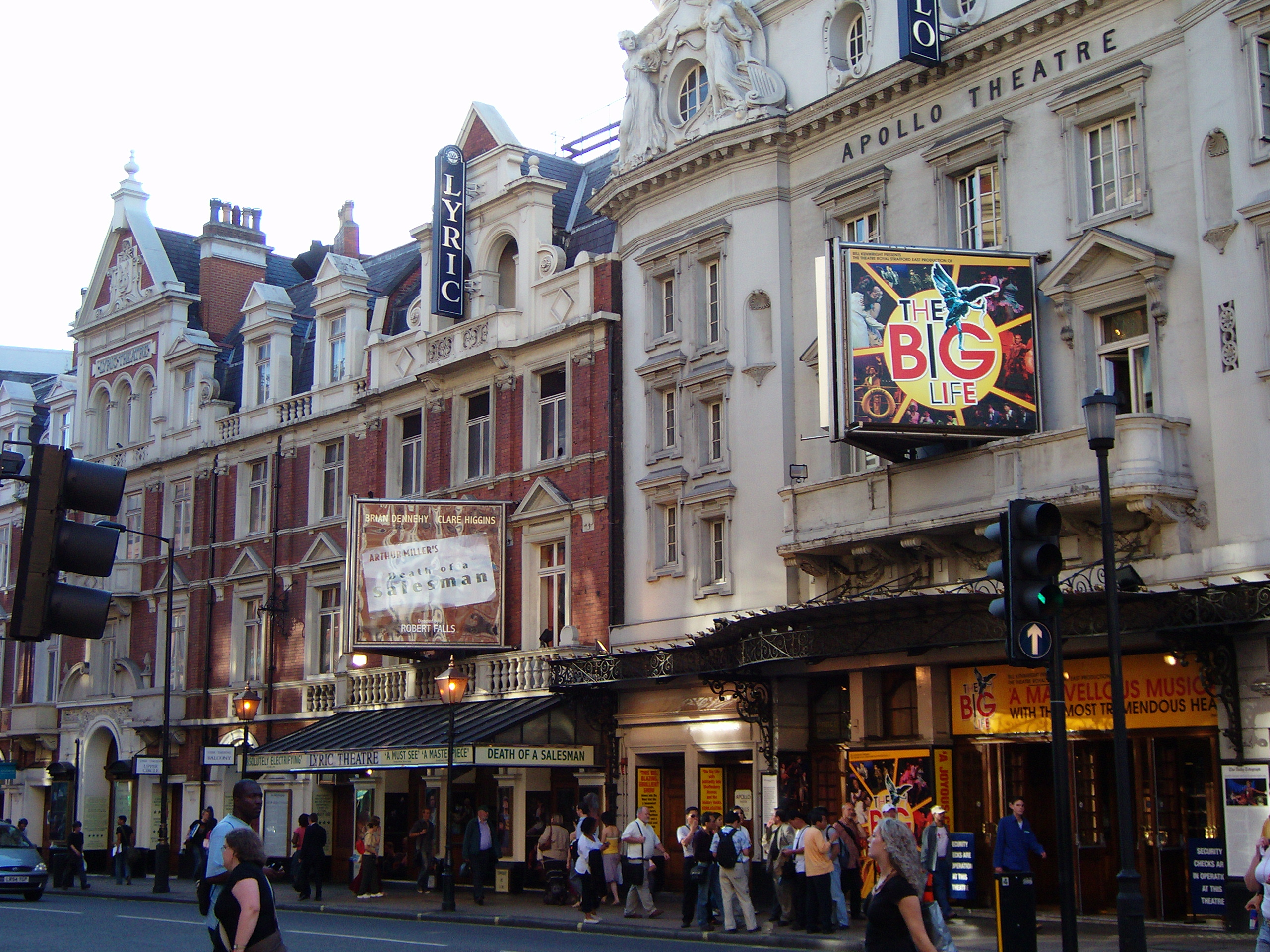 London's Shaftesbury avenue is home to many theatres. (C) Gerry Lynch, 2005.